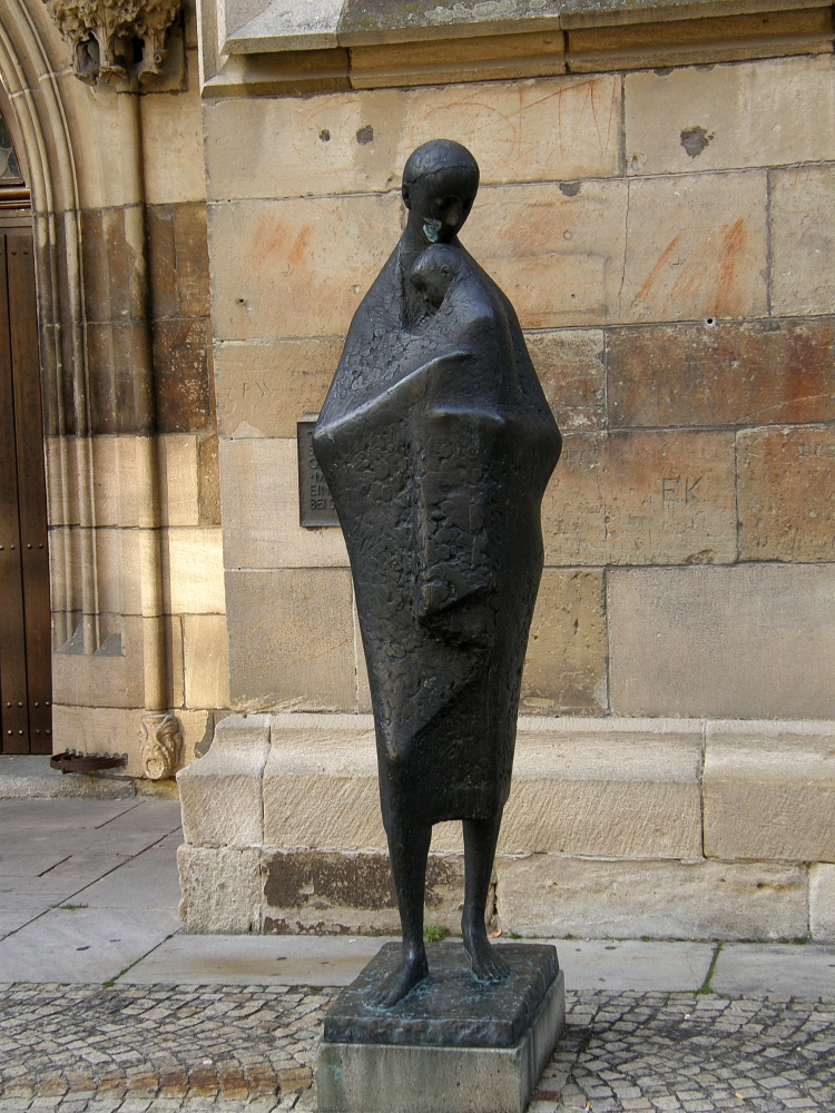 sculpture in Schorndorf, Germany